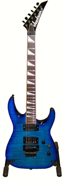 Jackson DK 2 Guitar